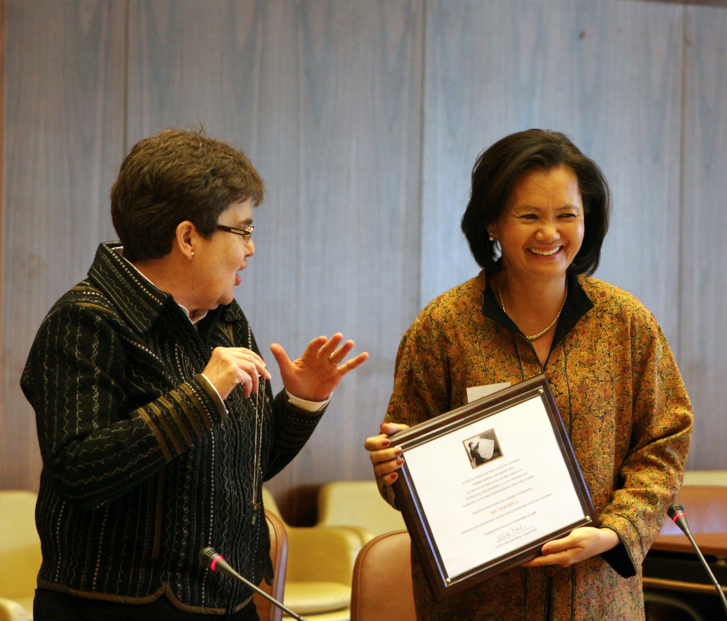 Mou Sochua receives the Eleanor Roosevelt Award for leadership in human rights from Allida Black, Director of the Eleanor Roosevelt Project at The George Washington University. The Courage to Lead: A Human Rights Summit for Women Leaders, December 8-10, 2009. The Courage to Lead Summit brought together experienced and emerging human rights leaders from over thirty countries to share and build on their experiences and to promote mentoring and collaboration among women who play a key role in promoting human rights worldwide. The conference is organized by The Eleanor Roosevelt Project of the George Washington University and Vital Voices Global Partnership with support from the U.S. Department of State, the Office of the High Commissioner for Human Rights and the International Labour Organization. The Conference of NGOs in Consultative Relationship with the United Nations (CoNGO) coordinated logistics for the event. Morning sessions of the December 8-10 summit at the ILO are also open to the public. US Mission Photo: Photo by Eric Bridiers